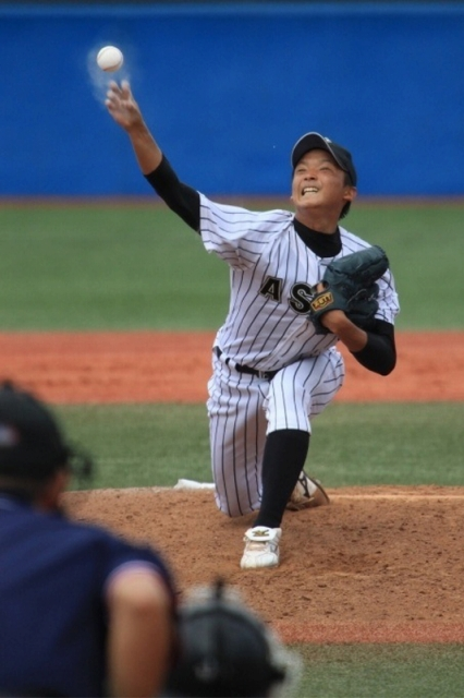 Nao Higashihama, pitcher of the Asia University Baseball Club.